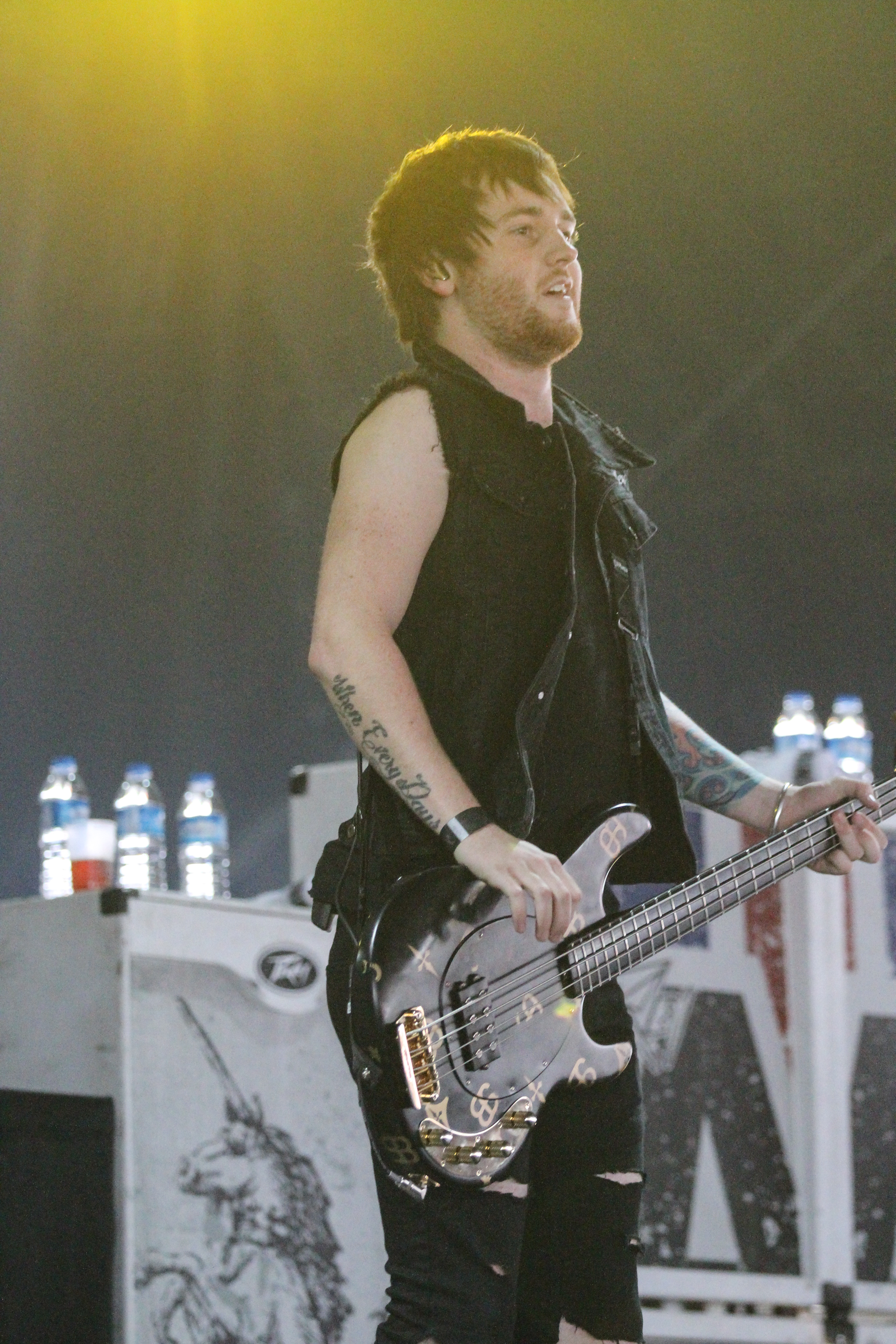 Festivalsommer This photo was created with the support of donations to Wikimedia Deutschland in the context of the CPB project "Festival Summer".